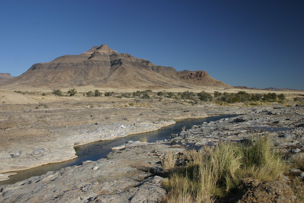 Tsaris Mountain with Tsauchab River